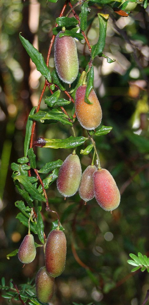 Billardiera_scandens - fruit. Ridge St, Lawson